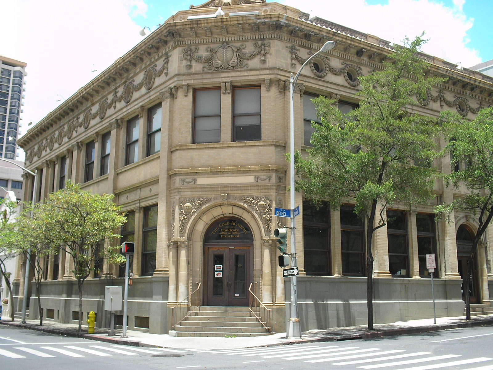 Yokohama Specie Bank (横浜正金銀行 Yokohama Shōkin Ginkō) Building, 36 Merchant Street, Honolulu, Hawaii, in Merchant Street Historic District on the National Register of Historic Places